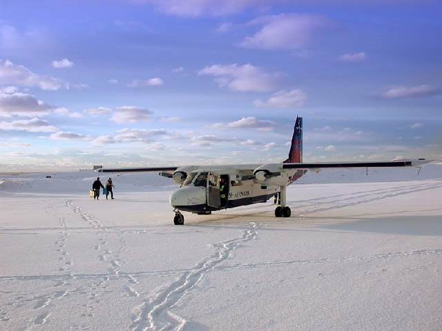 Loganair Islander, Fair Isle airstrip. No snow-clearing problems here! As long as the snow is not more than a few inches deep scheduled flights continue as usual. Note - passengers have to carry their own luggage out to the aircraft!